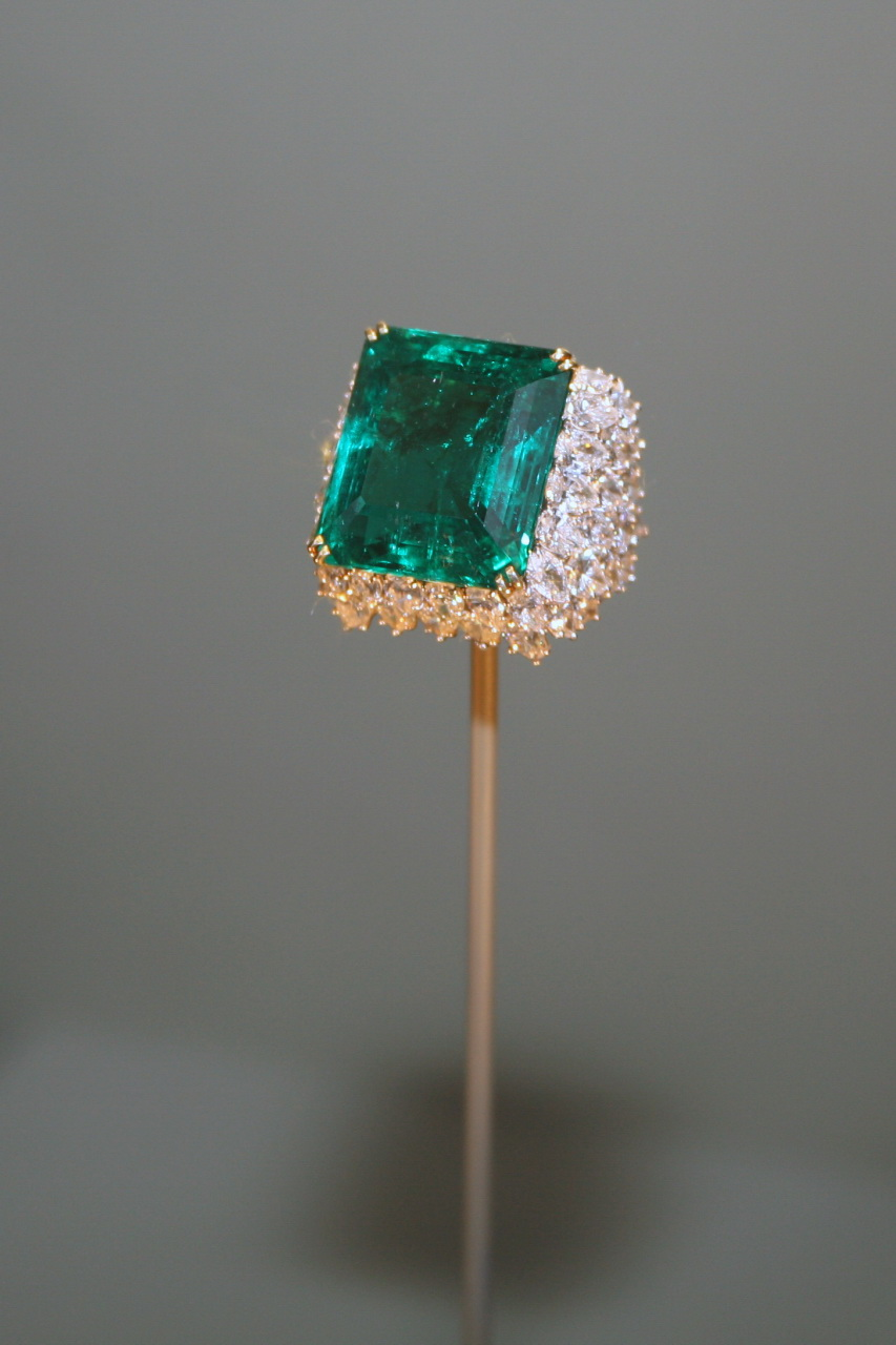 The superb clarity and color of the Chalk Emerald ranks it among the world's finest Colombian emeralds. This outstanding emerald exhibits the deep green color that is highly prized. According to legend, it was once the centerpiece of an emerald and diamond necklace belonging to the Maharani of the former state of Baroda , India. It originally weighed 38.4 carats, but was recut and set in a ring designed by Harry Winston, where it is surrounded by 60 pear-shaped diamonds totaling 15 carats. It was donated to the National Gem Collection by Mr. and Mrs. O. Roy Chalk in 1972.